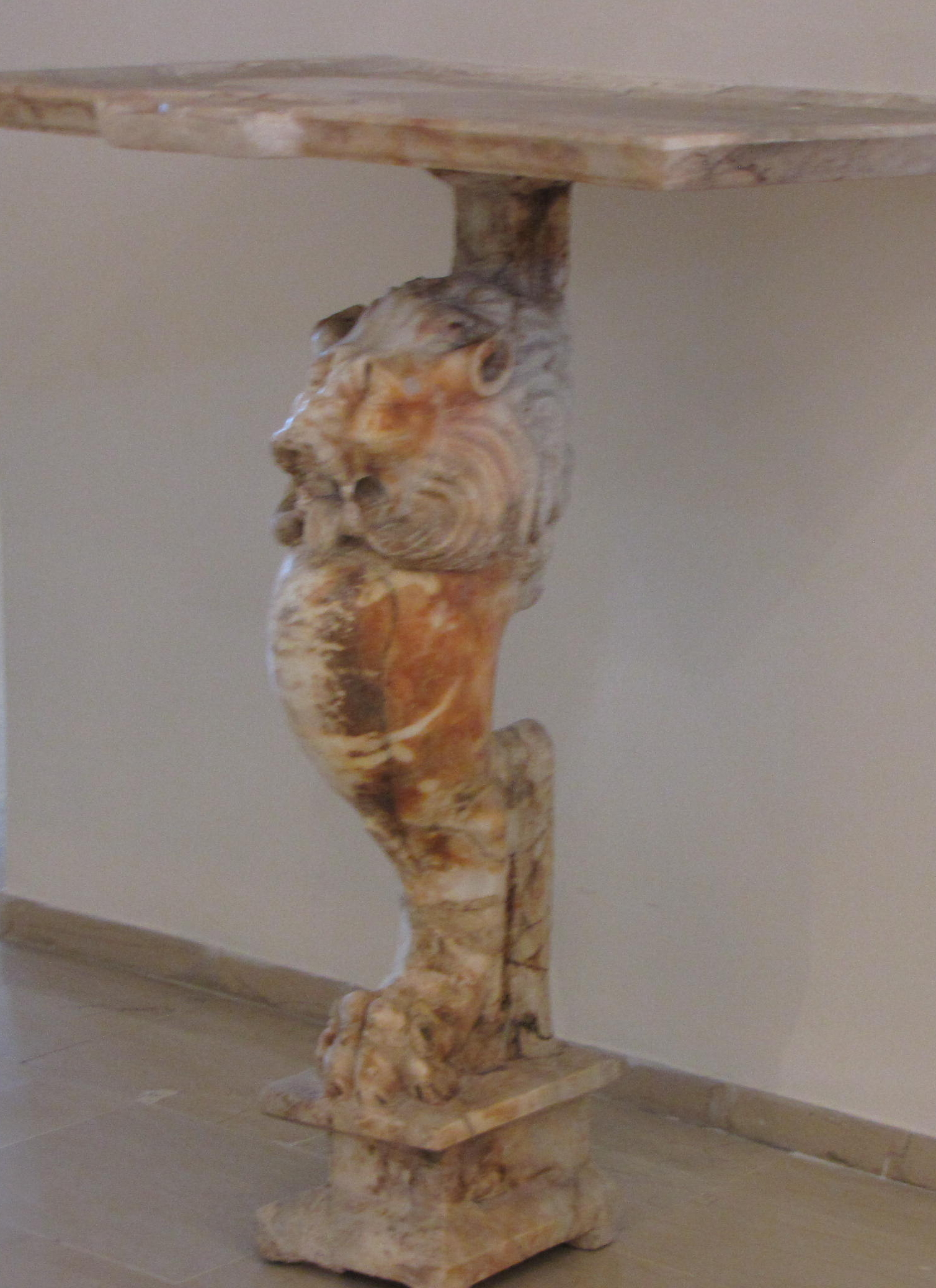 Table with a lions stand